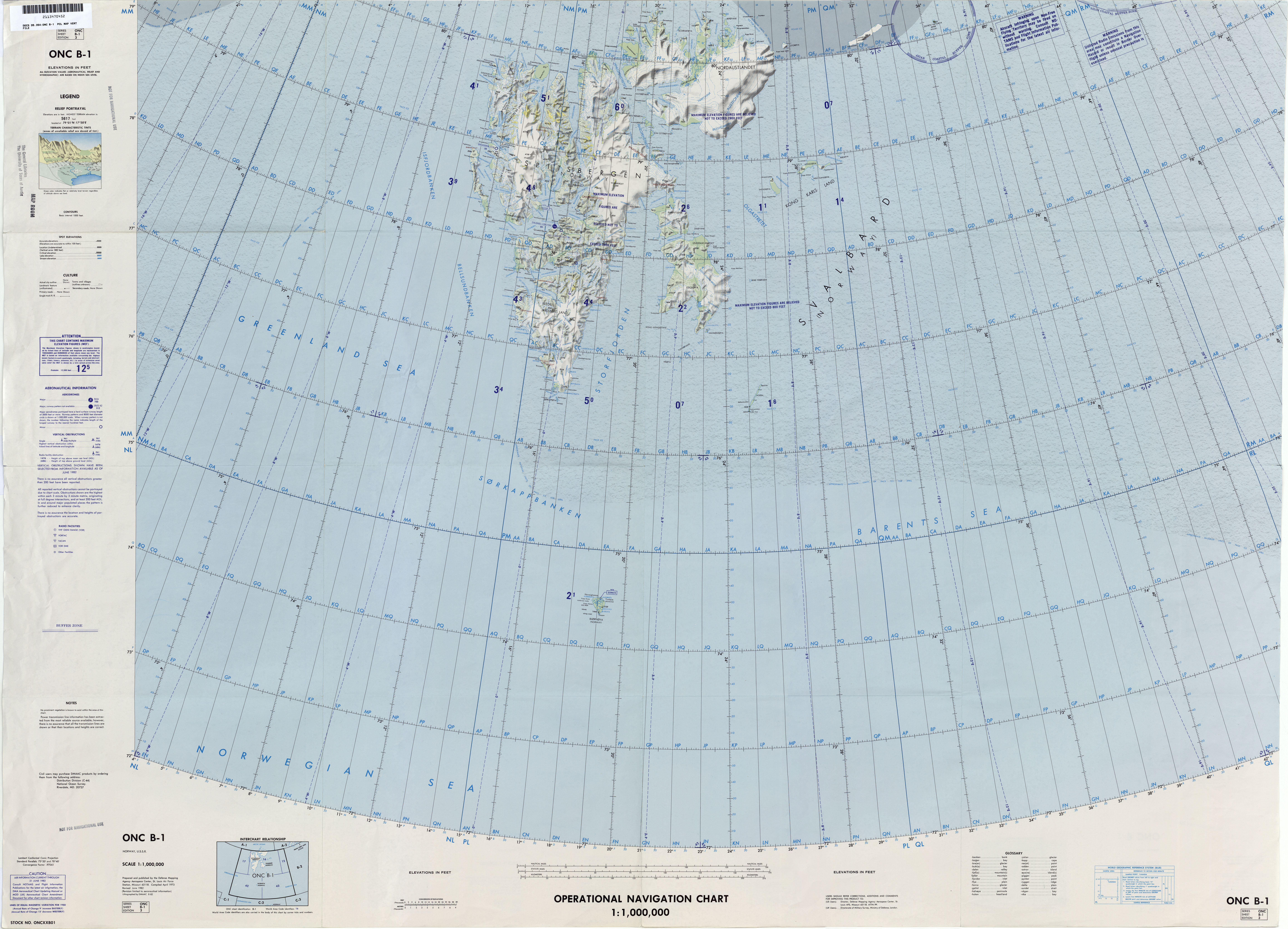 1:1,000,000 scale Operational Navigation Chart, Sheet B-1, 3rd edition. Covers Norway and the U.S.S.R. Lambert Conformal Conic Projection. Standard Parallels 73 20N and 78 40N. Center longitude 23 15E.